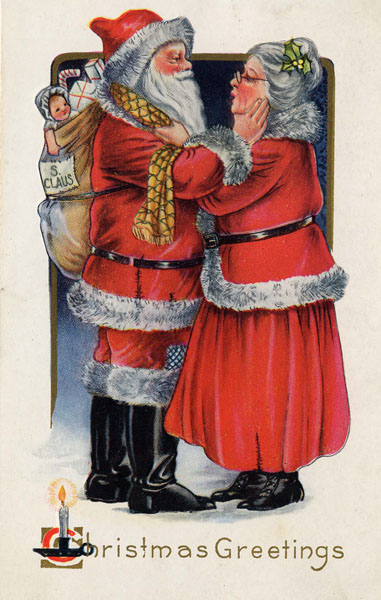 A postcard from 1919, with artwork of Santa Claus and Mrs. Claus.